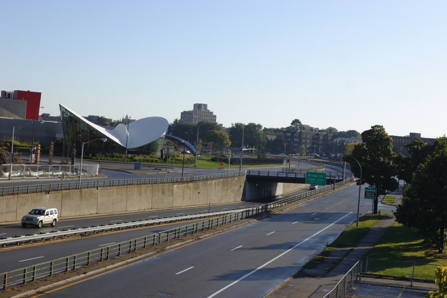 The eastern portion of the Loop is constructed in a trench with surface roads on either side.